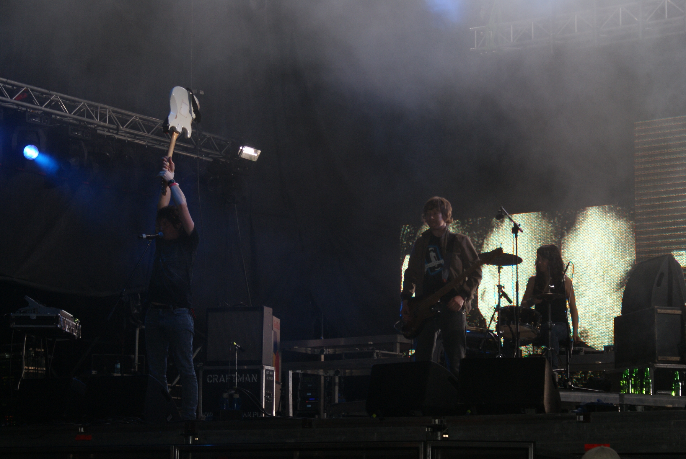 Audioriver Festival (7-9.08.2009, Płock, Poland)